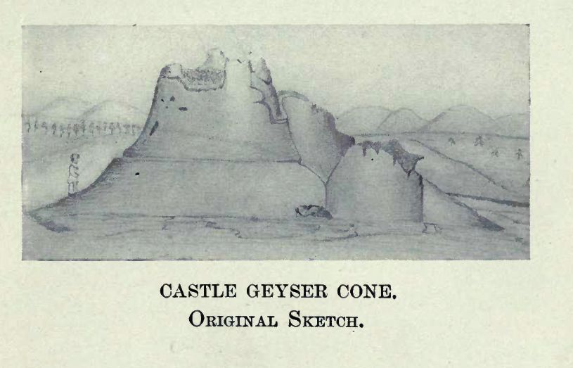 Original Sketch of the Castle Geyser as discovered by the Washburn Expedition in 1870 as published in Nathaniel Pitt Langfords Diary of the Washburn Expedition to the Yellowstone and Firehole Rivers in 1870. (1905)